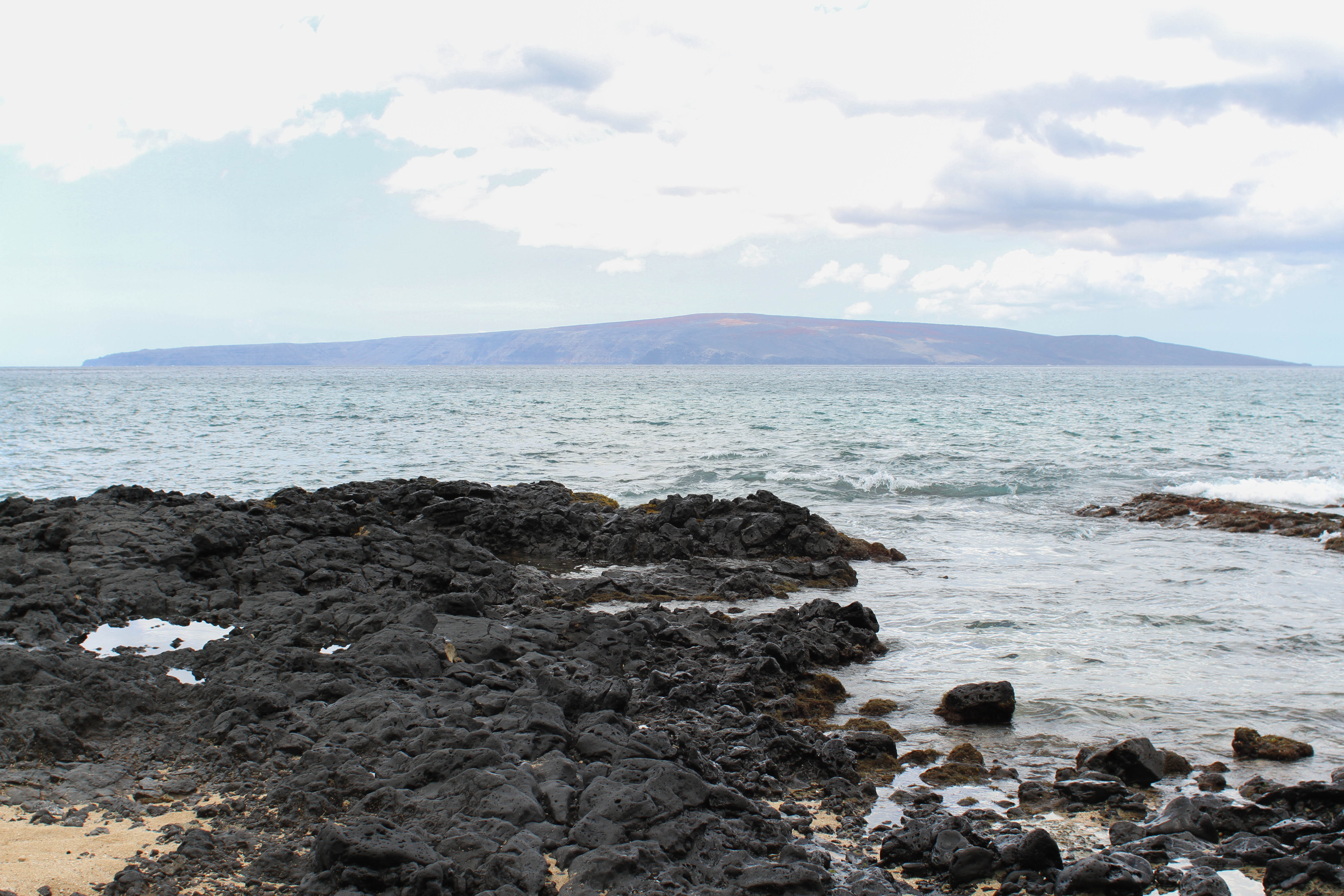 The shield volcano that forms the island of Kahoolawe in Hawaii, viewed from Makena in Maui, Hawaii, USA.